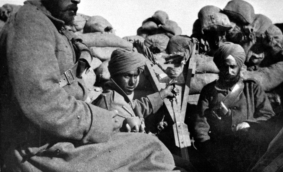 A bomb thrower, one of the earliest devices for projecting explosive charges short distances, can be seen in the centre of this photograph. It was in effect a miniature medieval-style siege engine which used coiled springs, rubber or torsioned wire as a catapult to hurl grenades. 29th Indian Infantry Brigade was one of the three brigades of the 10th Indian Division, which was formed in Egypt during November 1914. In April 1915 the brigade was detached from the division and sent as reinforcements to Gallipoli.